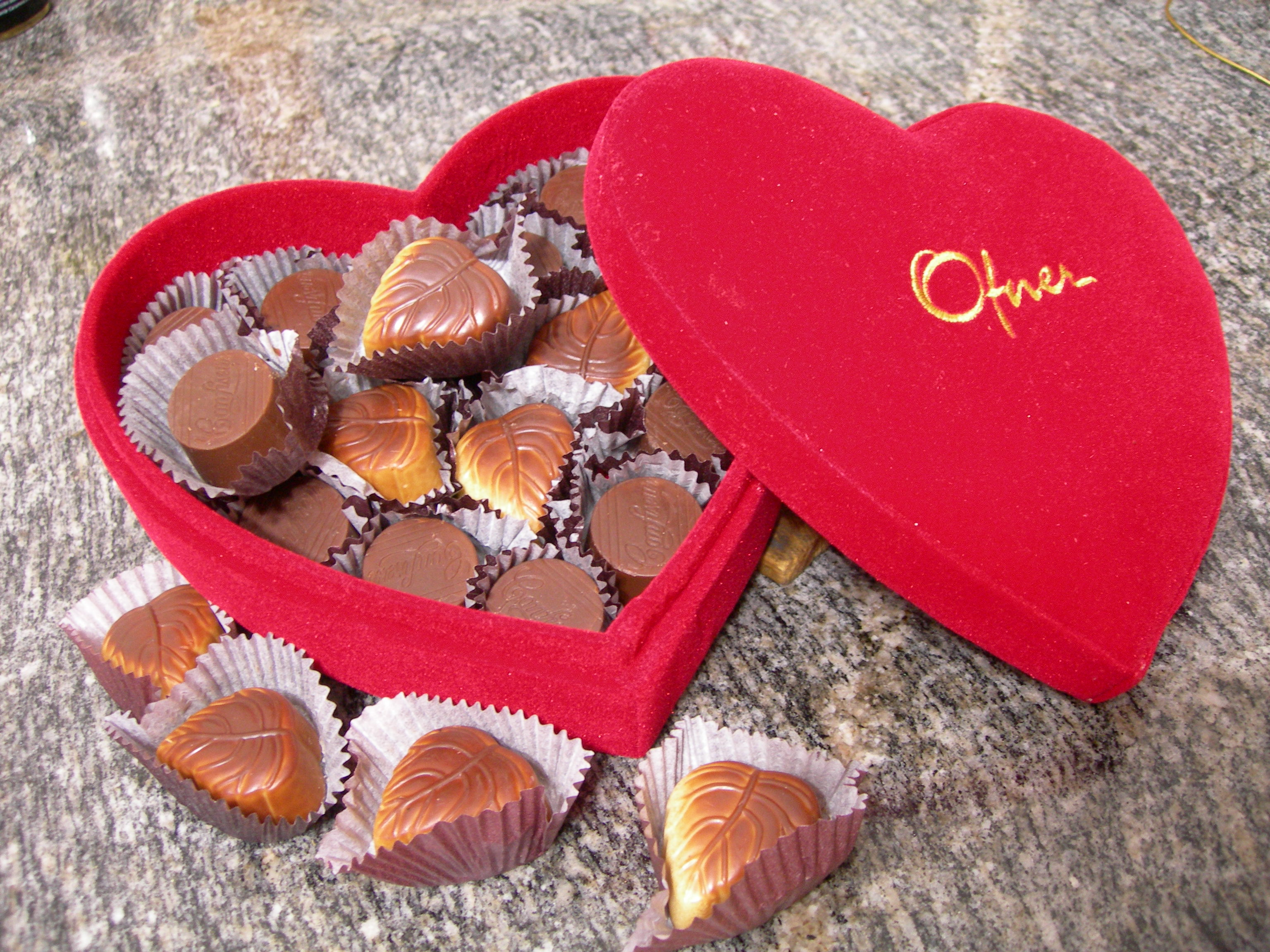 Ok, not exactly the gift, but something for her to remember I didn't forget her birthday^v' (09/30)